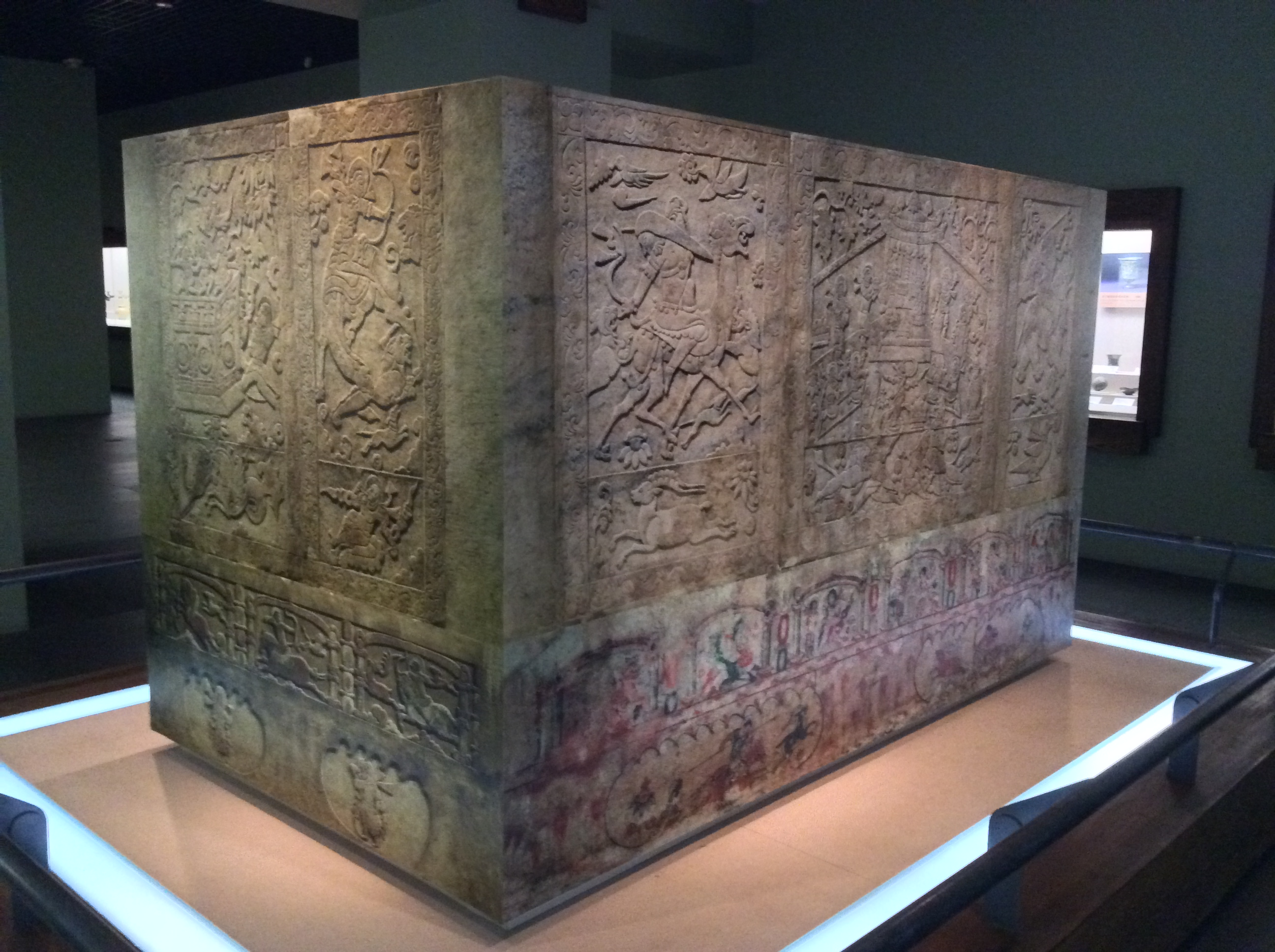 虞弘墓 隋, 開皇十二年(公元592年) 山西太原市王郭村虞弘墓出土 1999年發掘